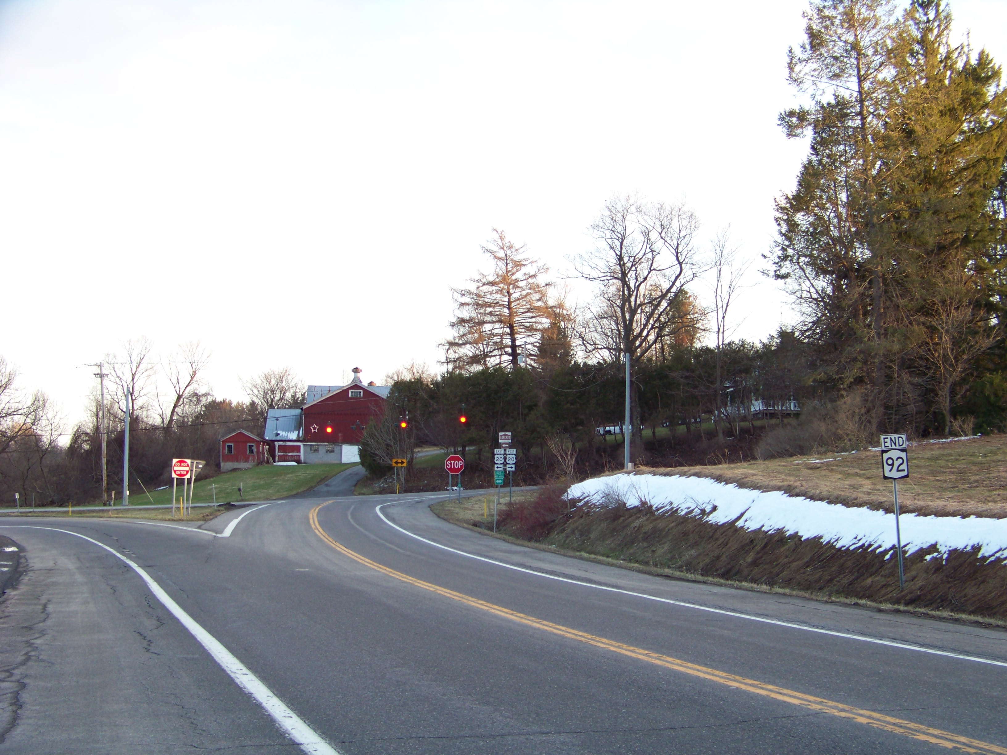 NY 92 eastern terminus at NY 20 in Cazenovia, New York